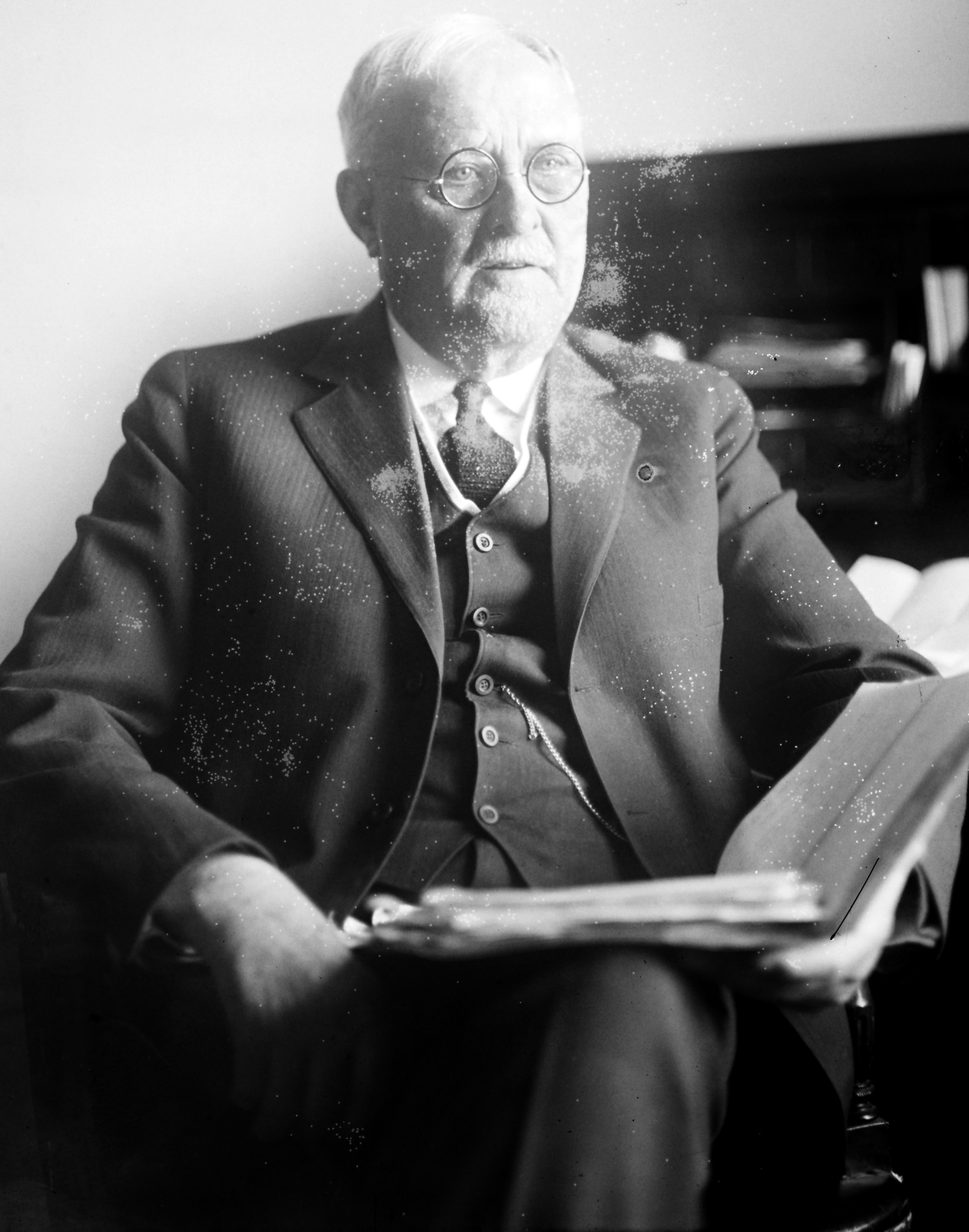 Edgar C. Ellis, US Representative from Missouri